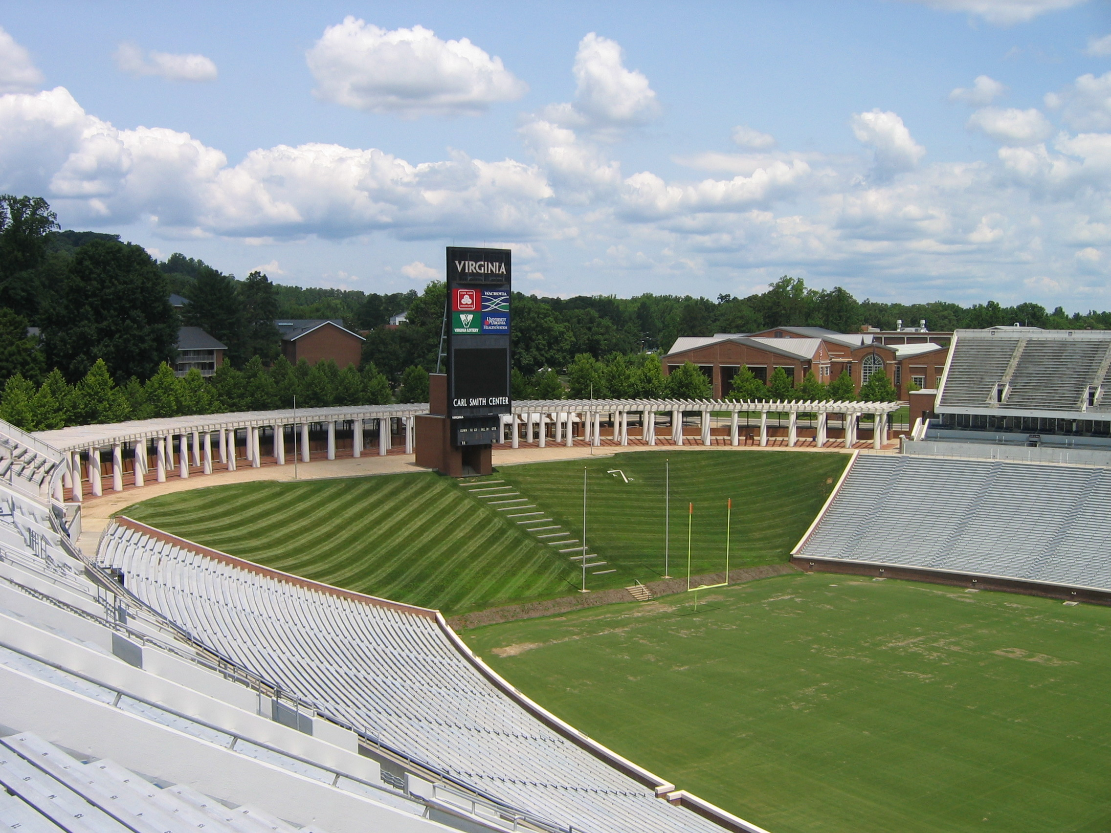 University of Virginia: Scott Stadium 2006. On the lawn, between the poles, is the sign of the Seven Society, one of the secret societies at the University of Virginia. In the background (to the right), the Aquatic and Fitness Center (AFC).